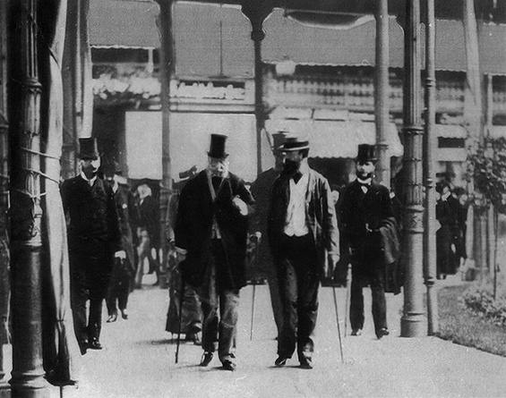 Wilhelm I and Nikolaus Wilhelm zu Nassau in Bad Ems; Vincent Benedetti is not on this picture